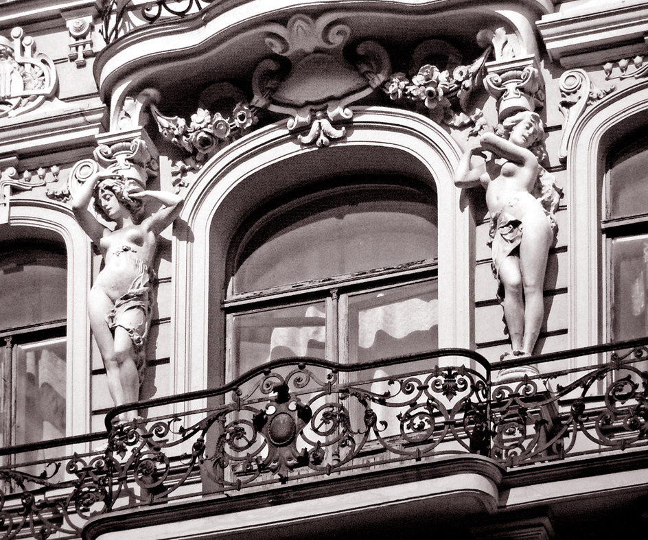 Latvia. Riga. Antonijas street. Cross-roads. Elizabetes street 33.